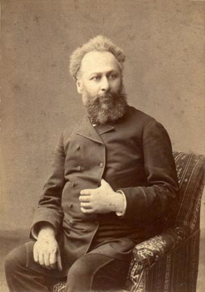 Poet and public figure Akaki Tsereteli (1840-1915)